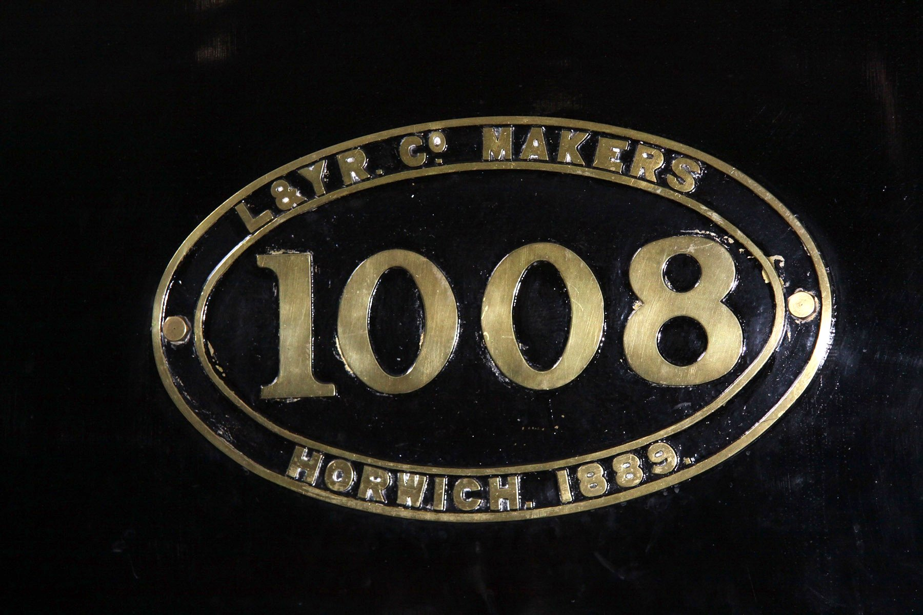 Number plate on Lancashire and Yorkshire Railway Aspinall 2-4-2T ?K2? class locomotive number 1008. Monday 1st June 2009